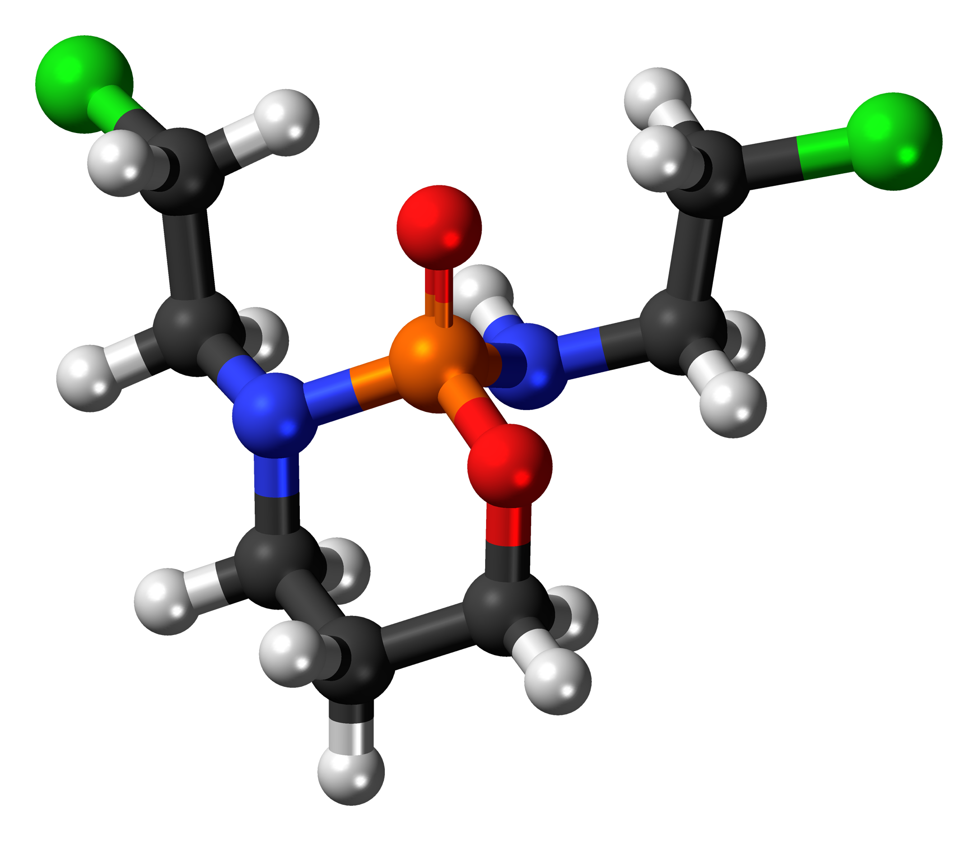 Ball-and-stick model of the ifosfamide molecule, an anti-cancer drug. Colour code: Carbon, C: black Hydrogen, H: white Oxygen, O: red Nitrogen, N: blue Phosphorus, P: orange Chlorine, Cl: green